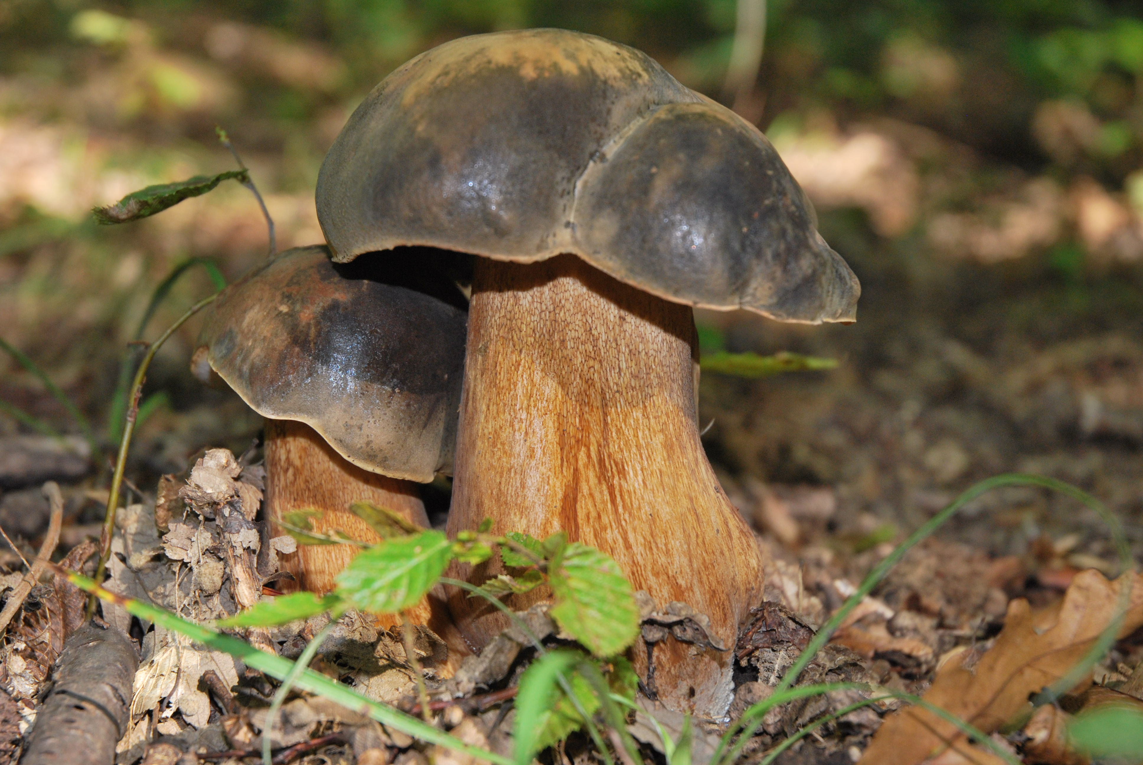 GLJIVE U NP UNA